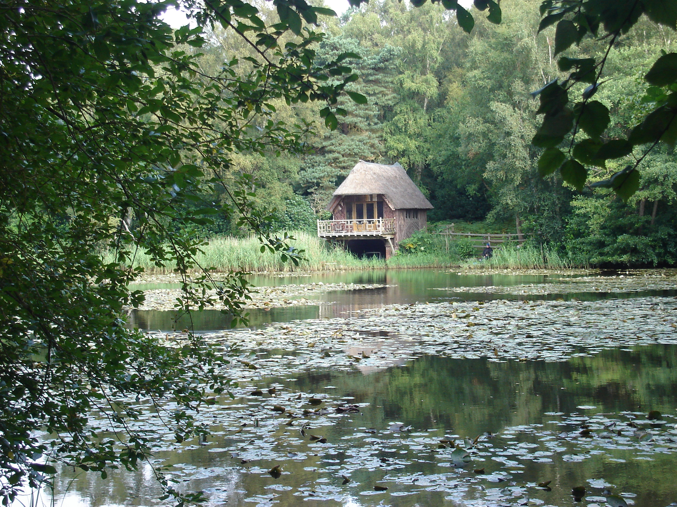 The lake at Cawston College, Cawston, Norfolk. The thatched roofed boathouse can be seen in the background.